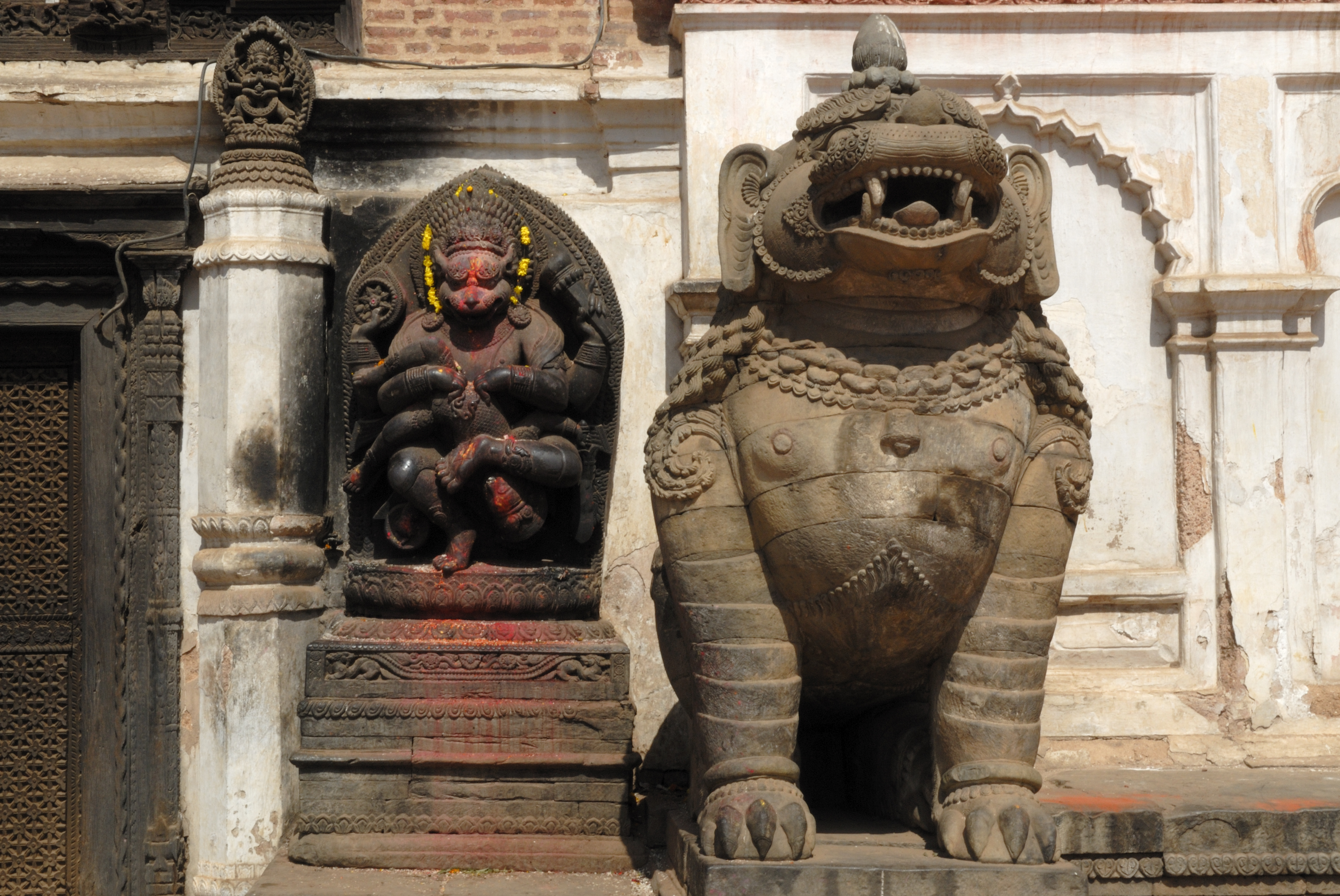 Palace front Bhaktapur